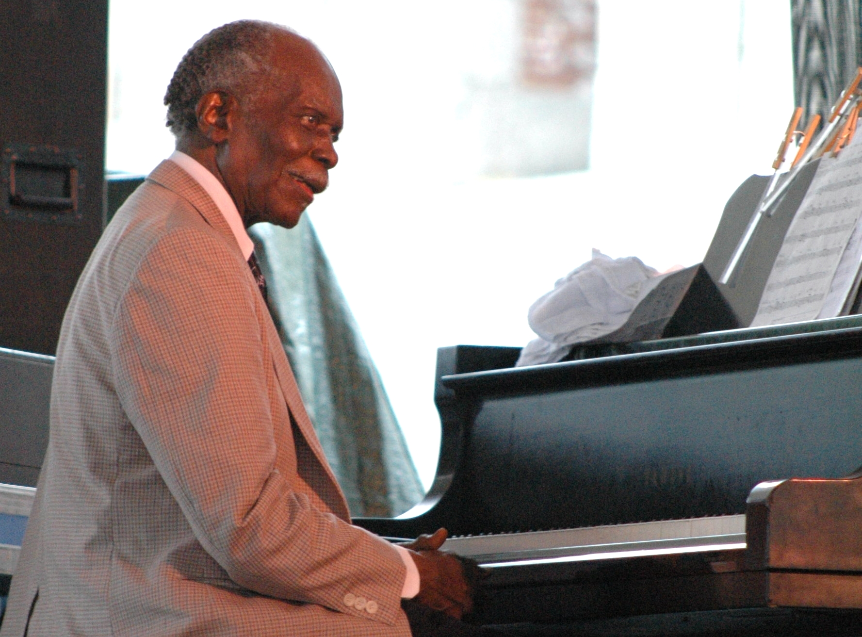 Hank Jones, Newport Jazz Festival, 7/14/05